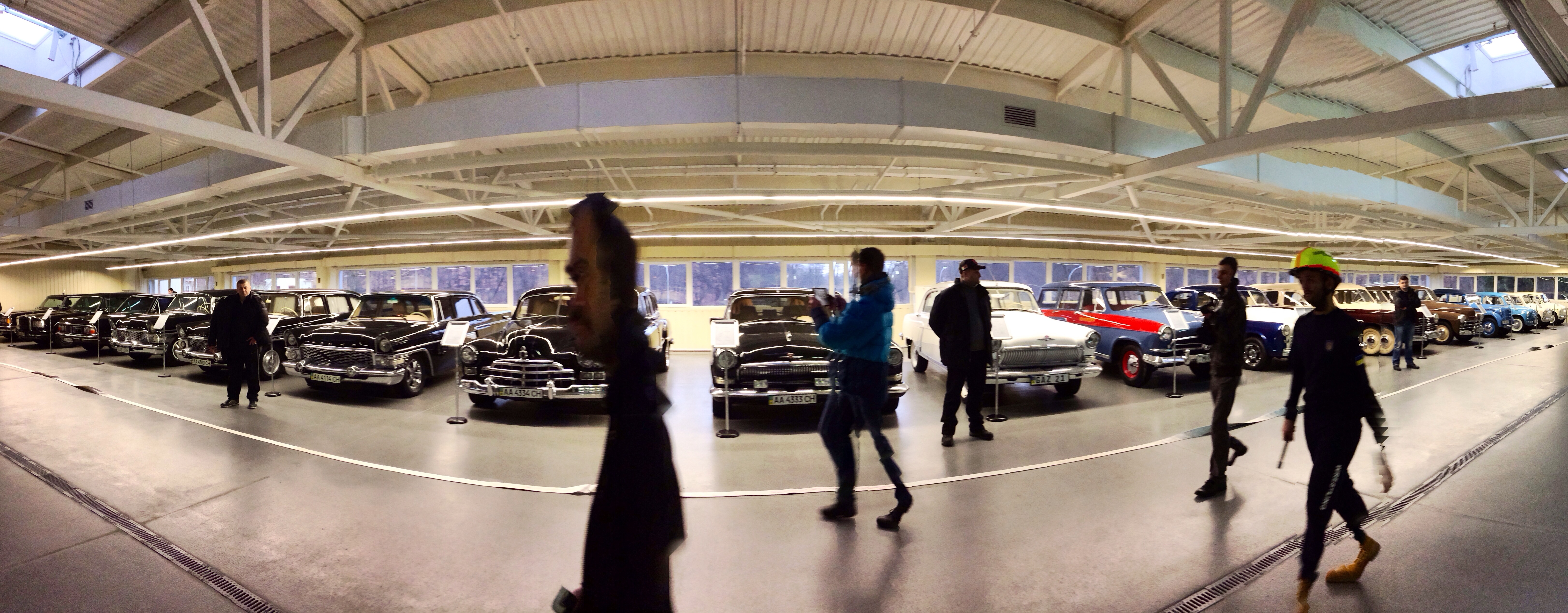 Mezhyhirya's auto collection, 22 February 2014.